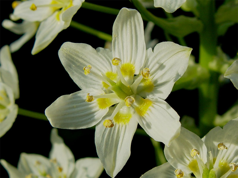 Description: Zigadenus fremontii, Fremont's Star Lily Location: San Pedro Valley Park - San Mateo County, CA (USA) Date: March 13, 2004 Photographer: Franco Folini